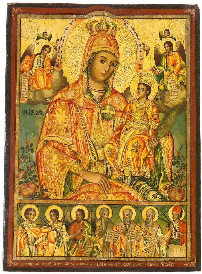 Mother of God Pantonhara - Joy to All - Dich Zograf 1844 Jovan Kaneo Church Ohrid